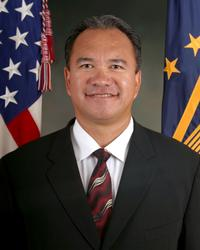 Dr. George Ka'iliwai III, Senior Executive Service (SES), is the Director for the Resources and Assessment Directorate (J8) at Headquarters, U.S. Pacific Command (HQ USPACOM). Dr. Ka'iliwai was the Commandant of the U.S. Air Force Test Pilot School. As Commandant, he oversaw the training of experimental test pilots, flight test navigators and flight test engineers to conduct and manage the ground and flight test evaluation of research prototype and production aerospace vehicles and their systems.